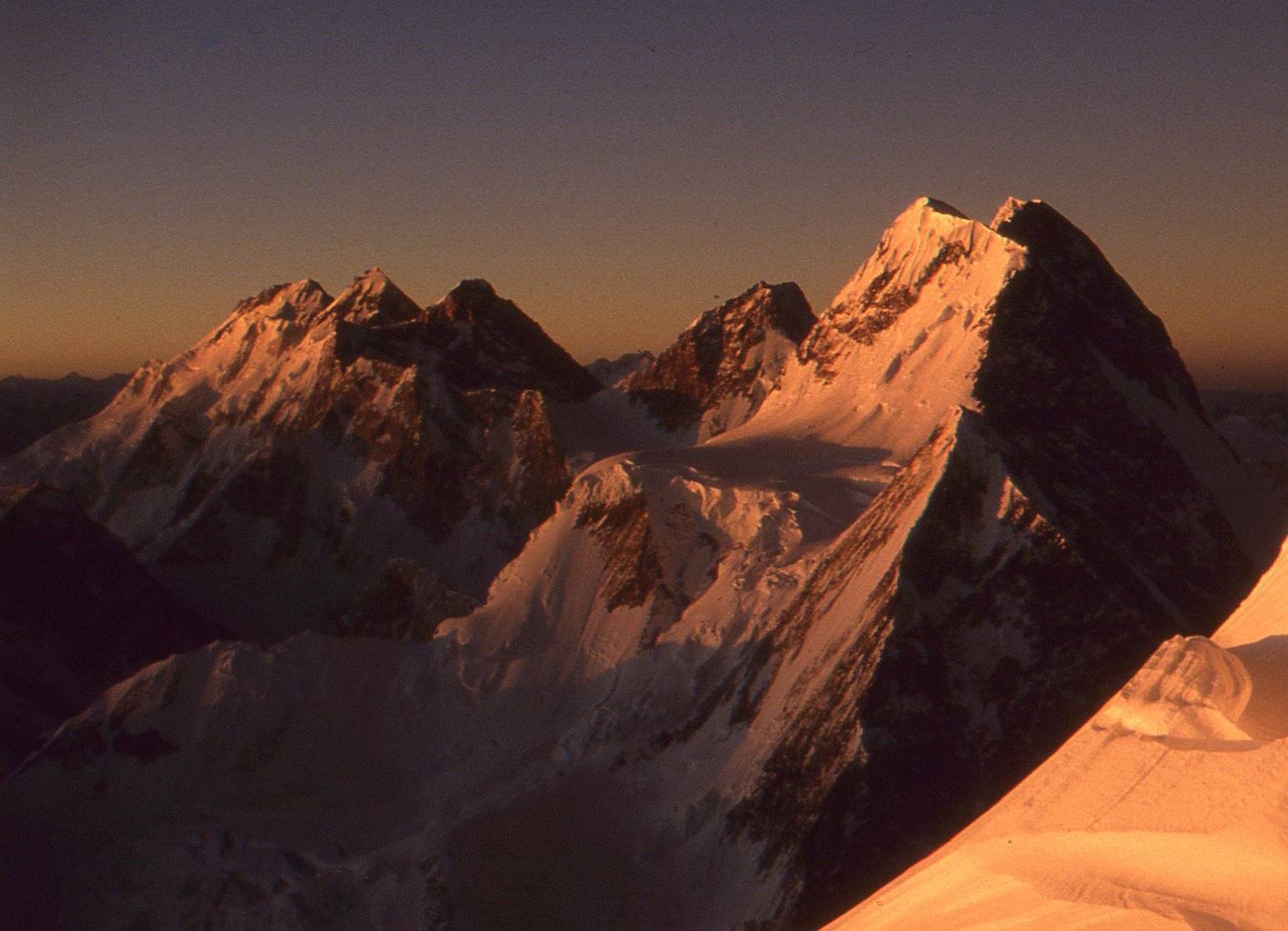 K2 at appr. 7'700 meter altitude. View of Gasherbrum I, II, III and IV as well as Broad Peak Central and Broad Peak Main (left to right), Broad Peak North is below Broad Peak Center (not against the horizon)